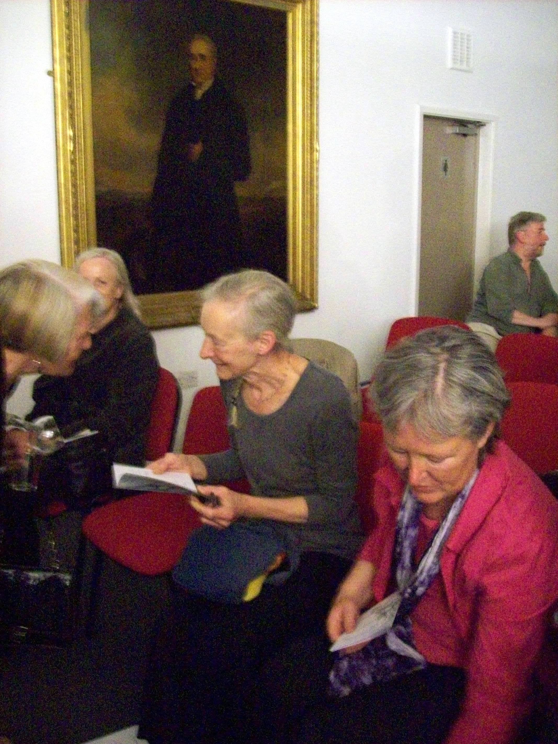 Gillian Allnutt is one of the working poets in the North-East of England and an audience of over 100 turned-up for the launch of her new chapbook "icumen" In explaining the title Gillian has written in its introduction: “My mother often said it: Sumner is icumen in". I'm delighted to have this picture of Gillian singing my copy. ...